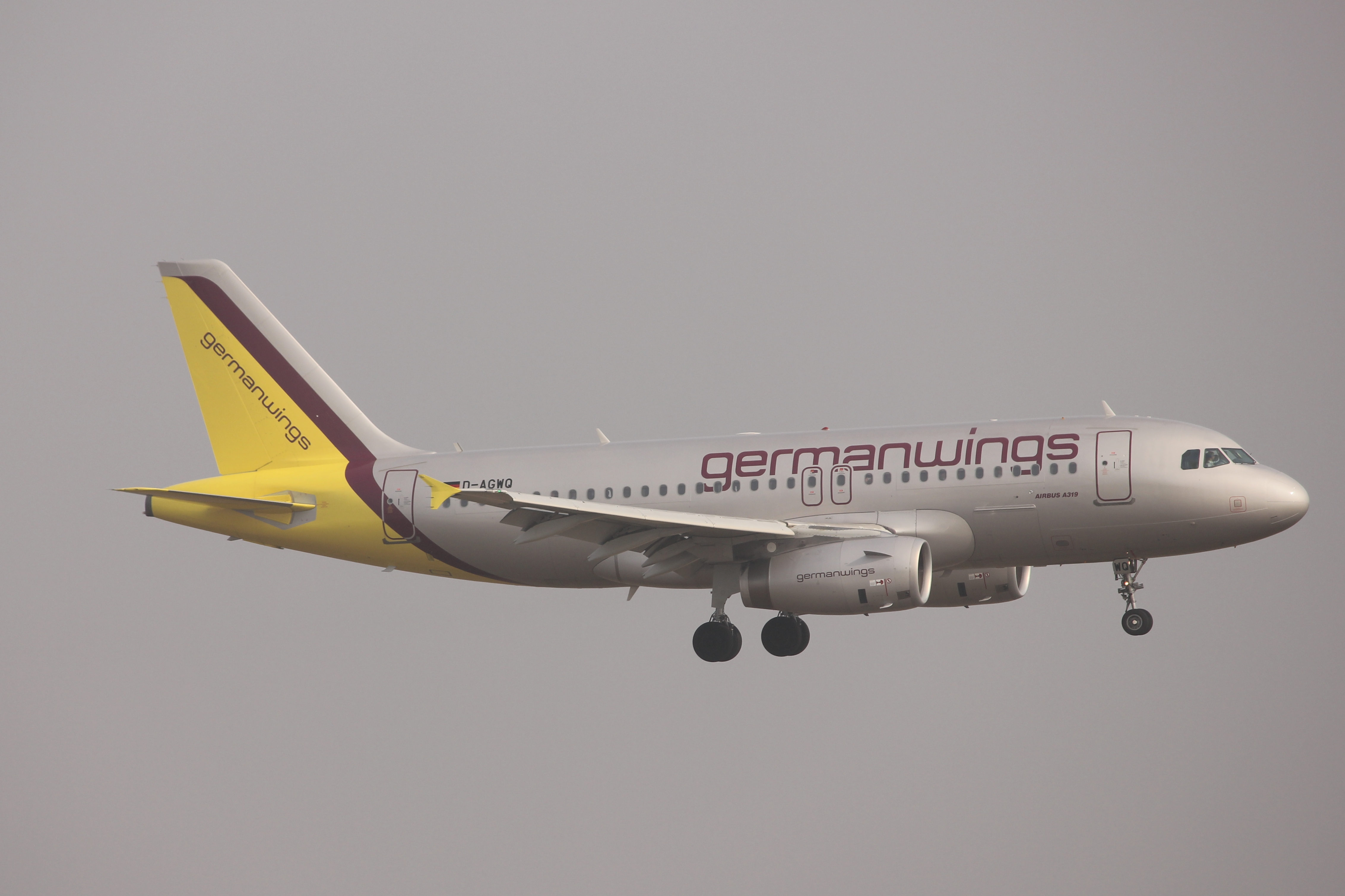 An A319 of Germanwings landing at Cologne/Bonn Airport